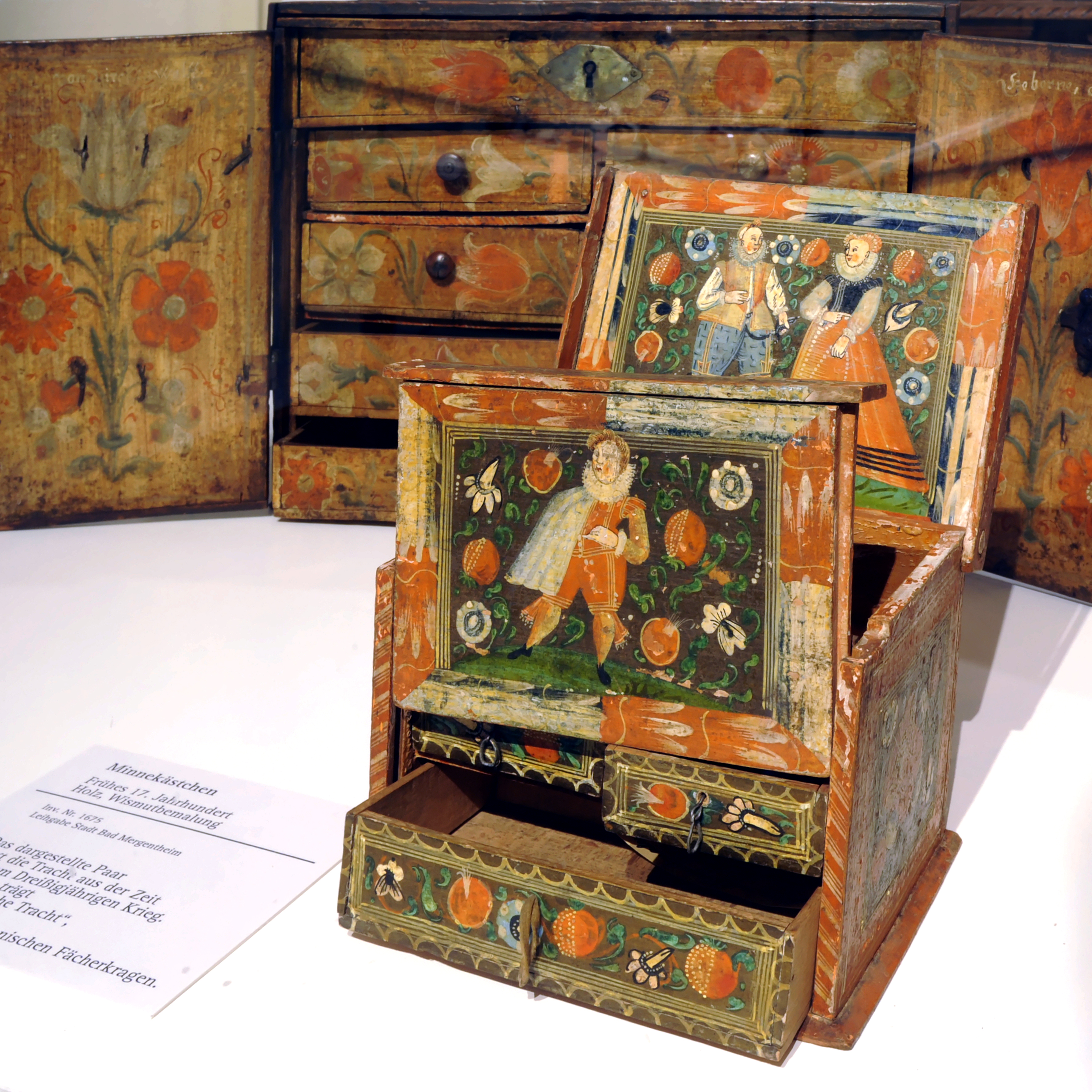 Carl Joseph Freiherr von Adelsheim donated his collection in 1864.